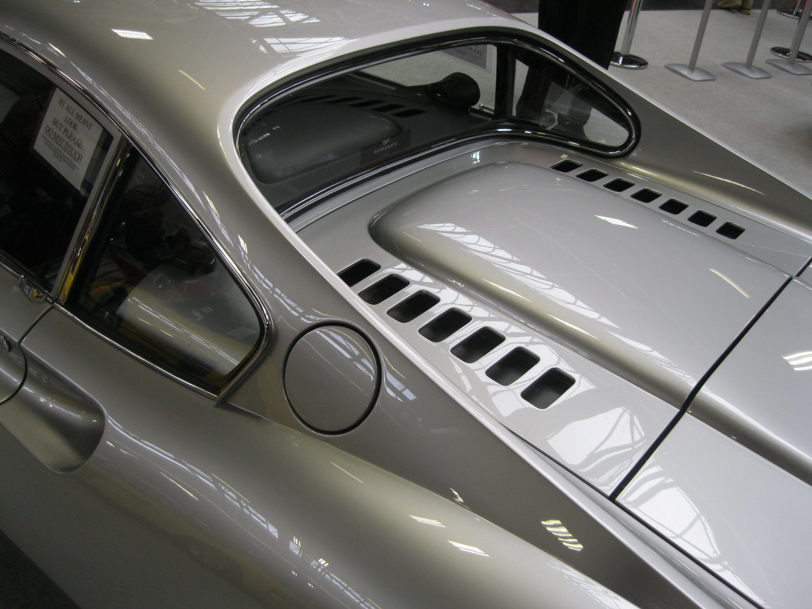 Beautiful example of the Dino. Automotive sculpture at its best - spotted at the NEC Classic Show November 2012.